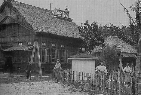 Chichi-jima Meteorological Observatory circa 1920